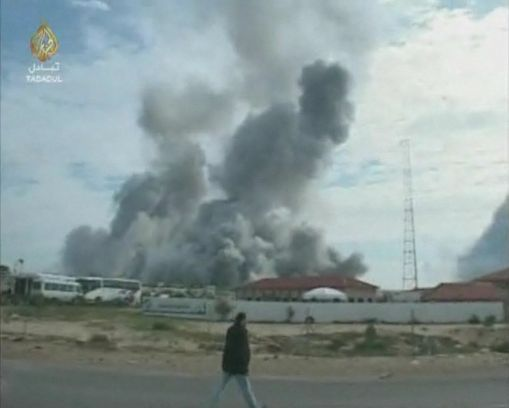 Israeli bombing of the Gaza Strip 08-09. Day 12 of the assault.